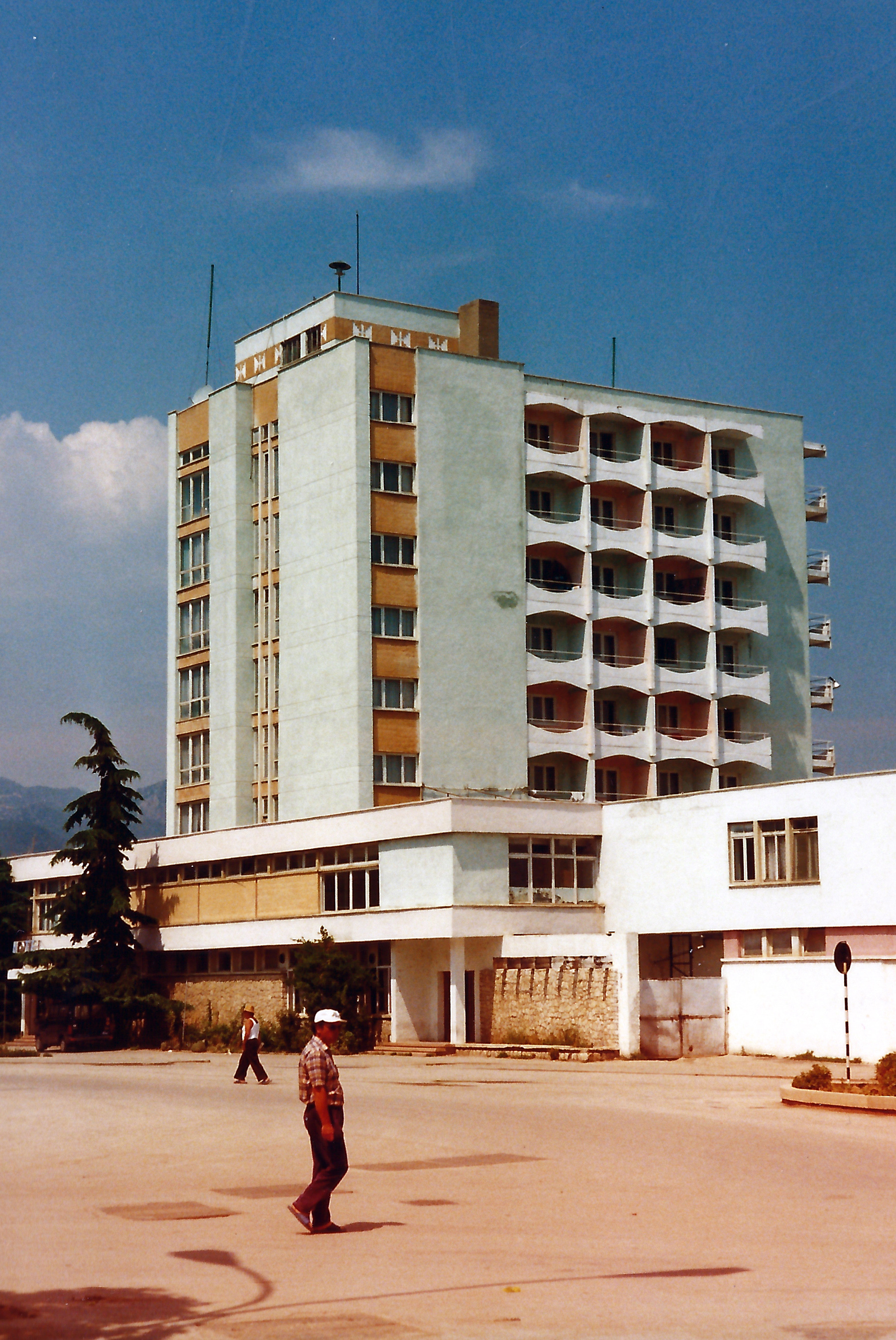 The state hotel of Pogradec in 1995